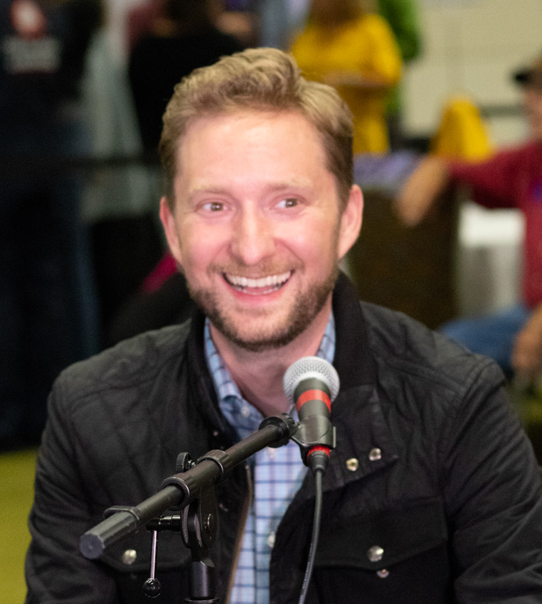 Photo taken at Election Central, Alaska General Election 2018. Election Central was co-hosted by ADN and the Alaska Landmine, and sponsored by GCI and Dittman Resarch. This photo is provided under a Creative Commons Attribution license. Please provide the following credit: "Photo used under Creative Commons license courtesy Corinne Graves, The Alaska Landmine ."